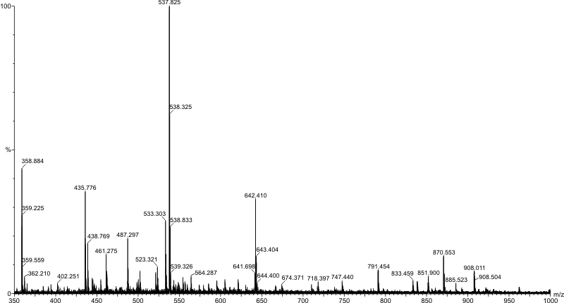 Mass spectrum of peptide mixture obtained by ESI-Q-TOF mass spectrometer. Horizontal scale presents mass (m) to charge (z) ratio. Vertical scale illustrates intensity (number of detector counts).